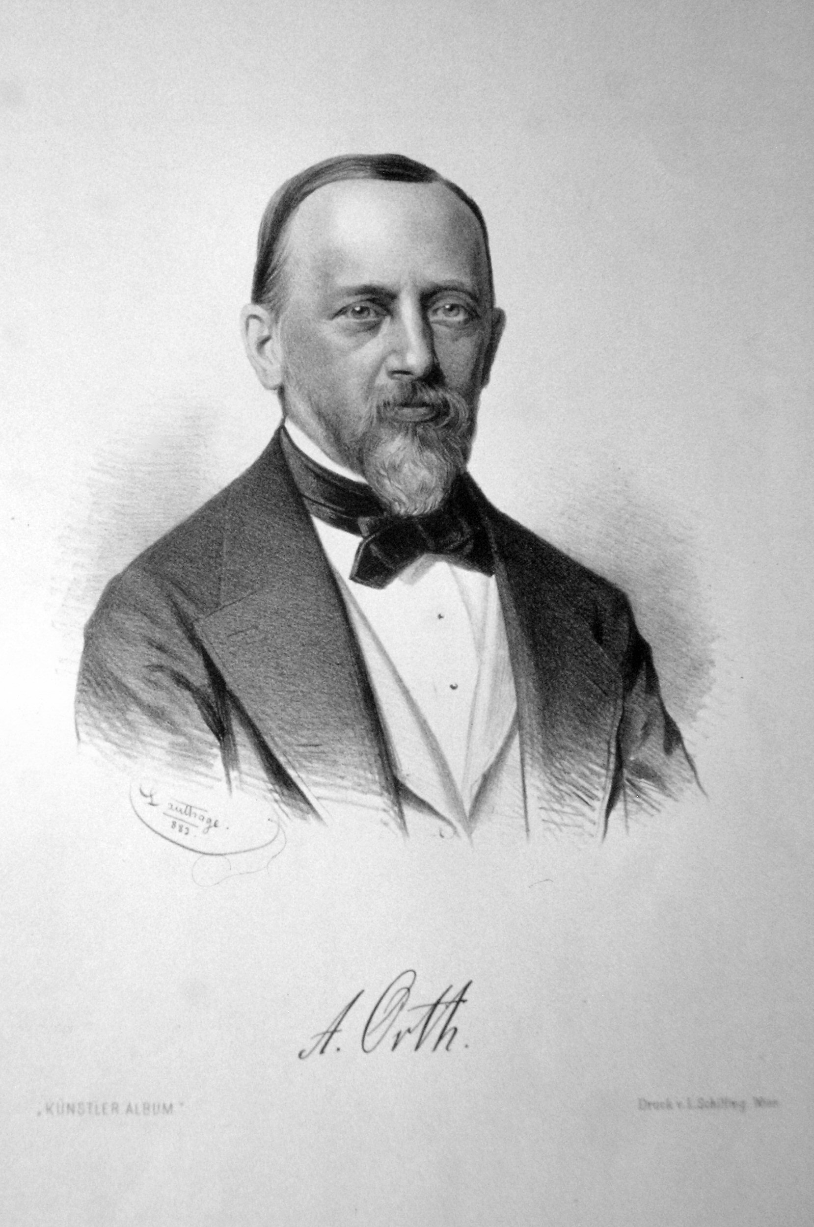 August Orth (1828-1901), German Architect Lithograph by Adolf Dauthage, 1883. From "Künstler Album" published by A. Eckstein, Vienna